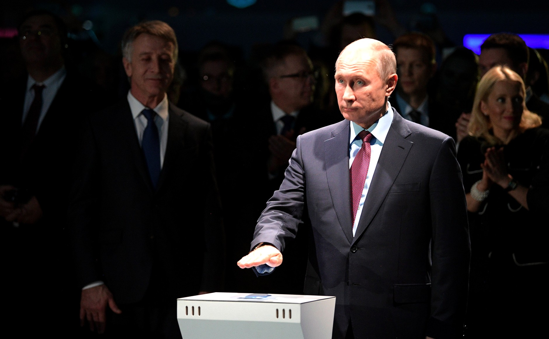 Ceremony of loading of the first LNG tanker within the project of Yamal LNG